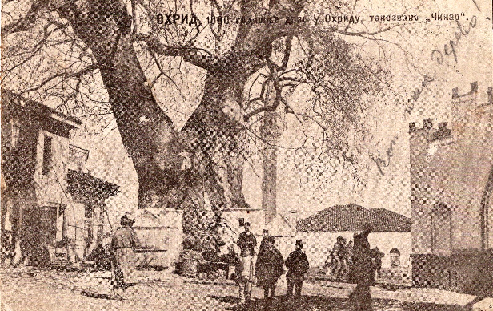 Postcard of Ohrid, Plane Tree, from 1922 This media file is produced by Wikipedian in Residence in Category:Wikipedian in Residence at DARM in 2016.